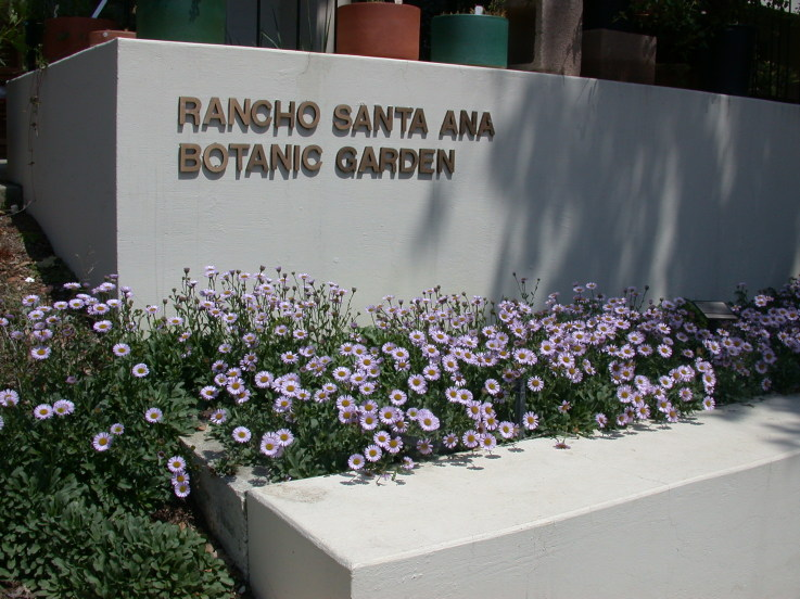 Rancho Santa Ana Botanic Gardens